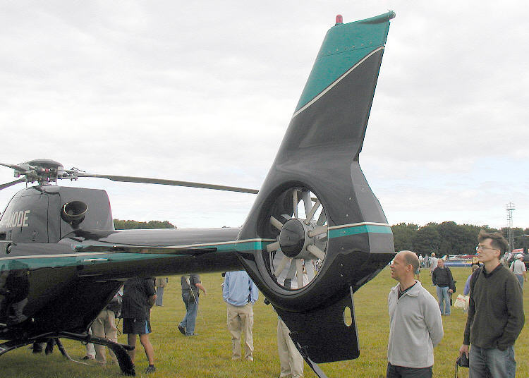 The fenestron (tail-rotor shrouding) of Eurocopter EC120B, built 2002, photographed at the Heli-Day, Kemble Airfield, England, in August 2003.